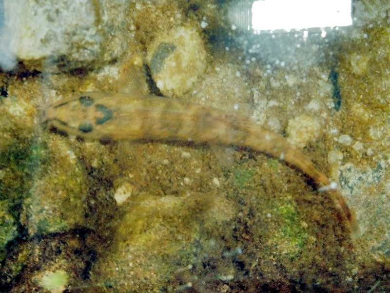 Stone Loach